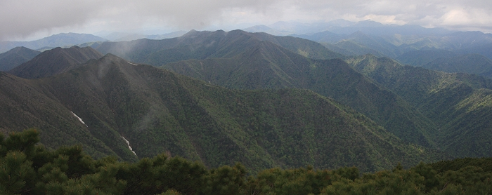 Main ridge of the Hidaka Mountains that leads to Mount Toyoni